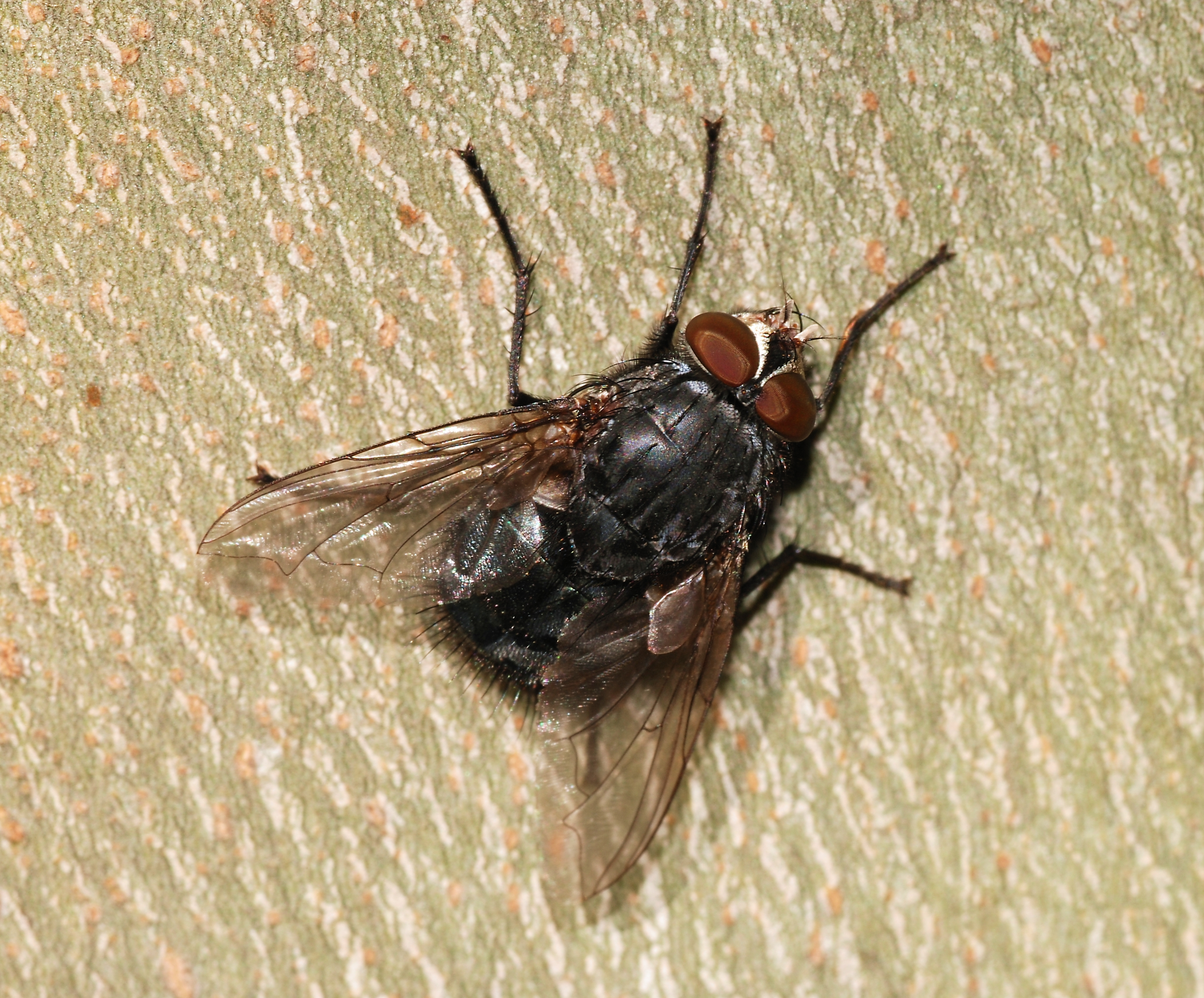 A male blow fly (Calliphora vicina).